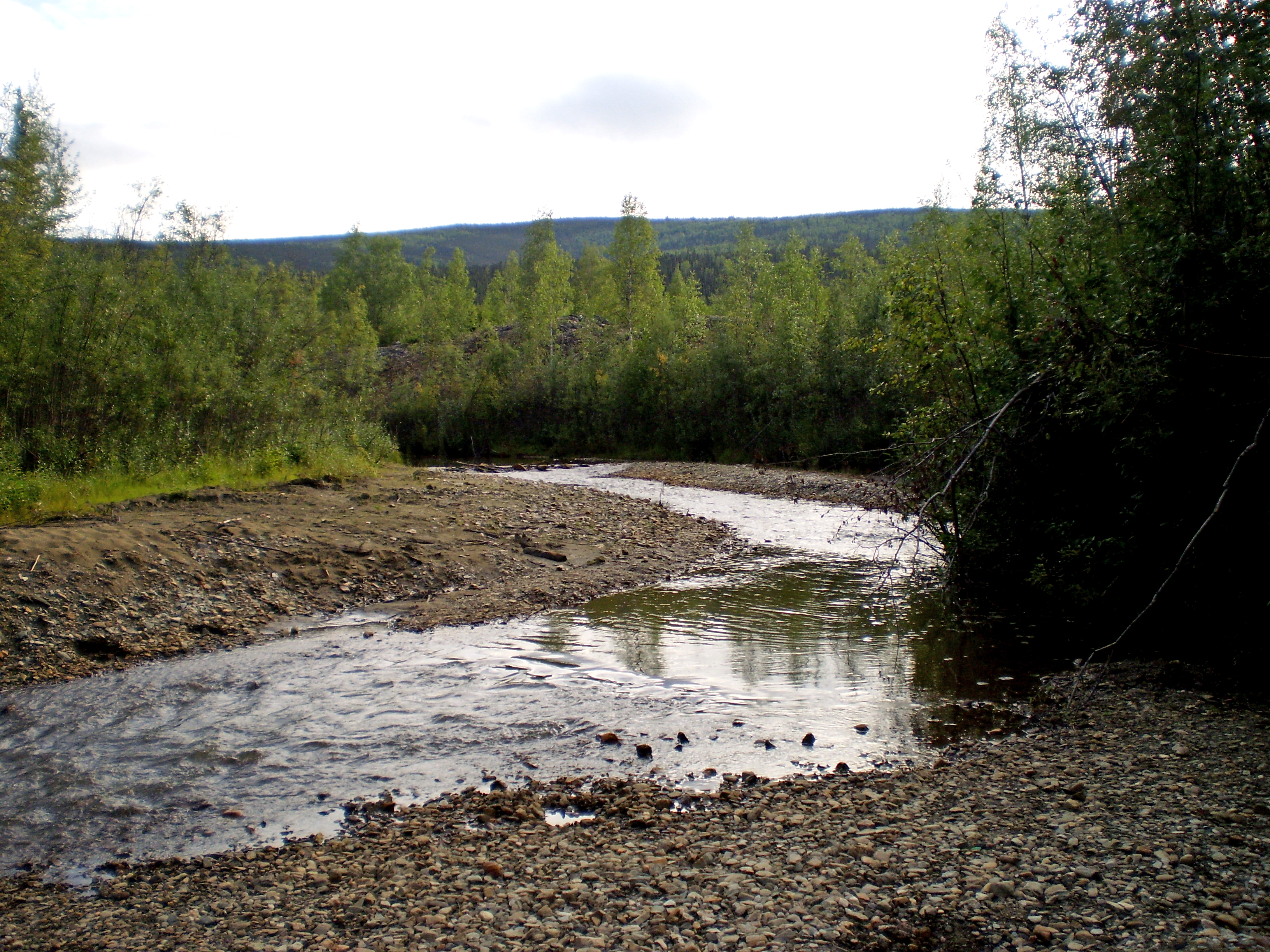 Discovery Claim on Bonanza Creek, Yukon Territory, is seen in August 2009. Discovery Claim (Claim 37903) – Site of discovery of gold in 1896; marks the beginning of the development of the Yukon.